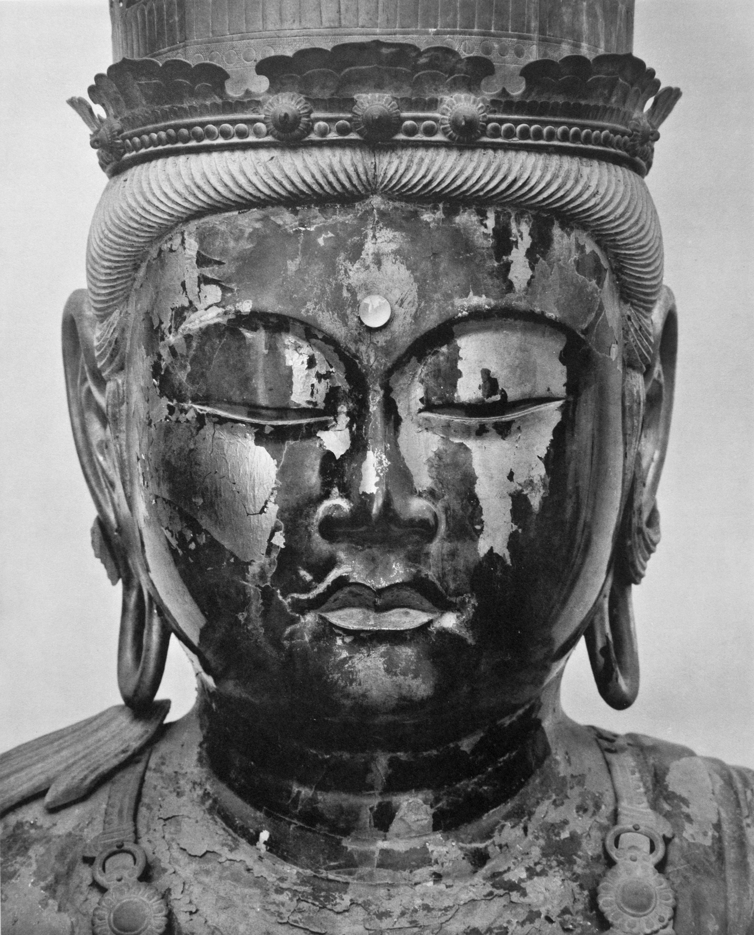 Enjoji, Nara, Japan